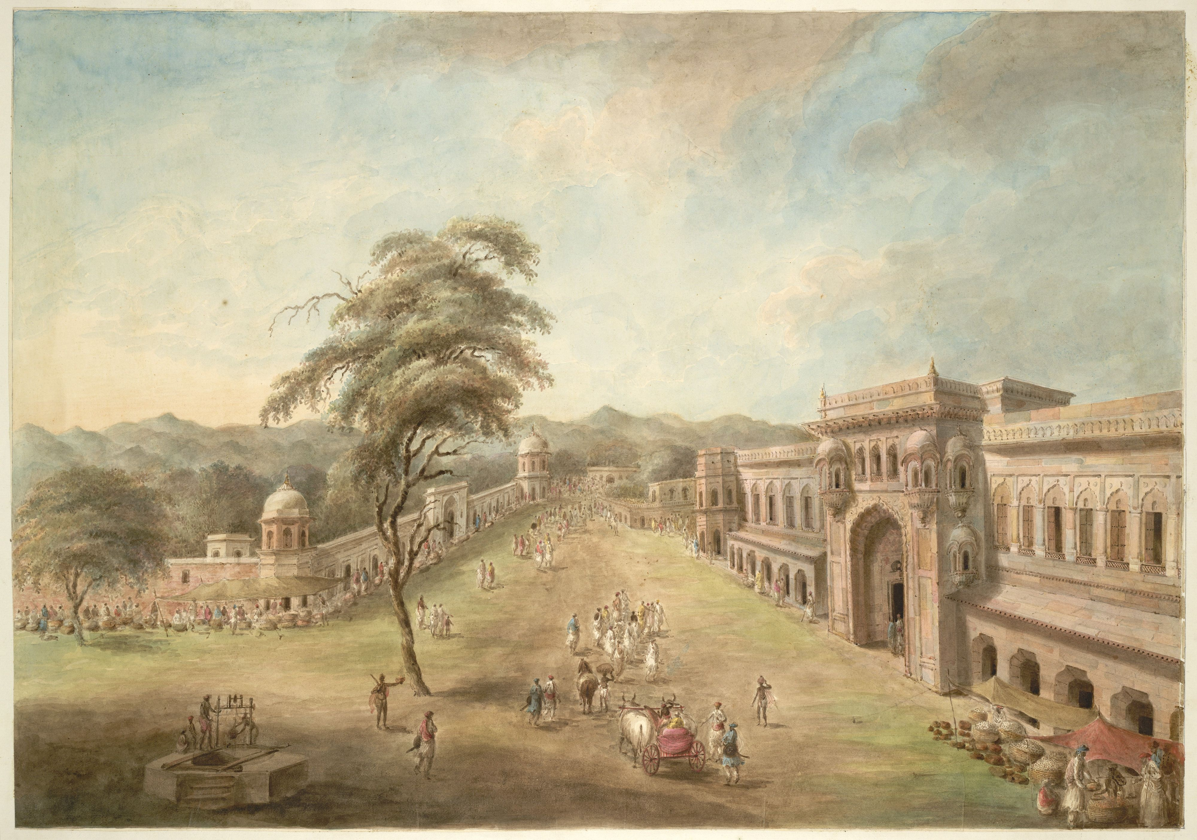 Exterior view of the gateway and facade of the chowk at Kankhal, Haridwar. 1814.